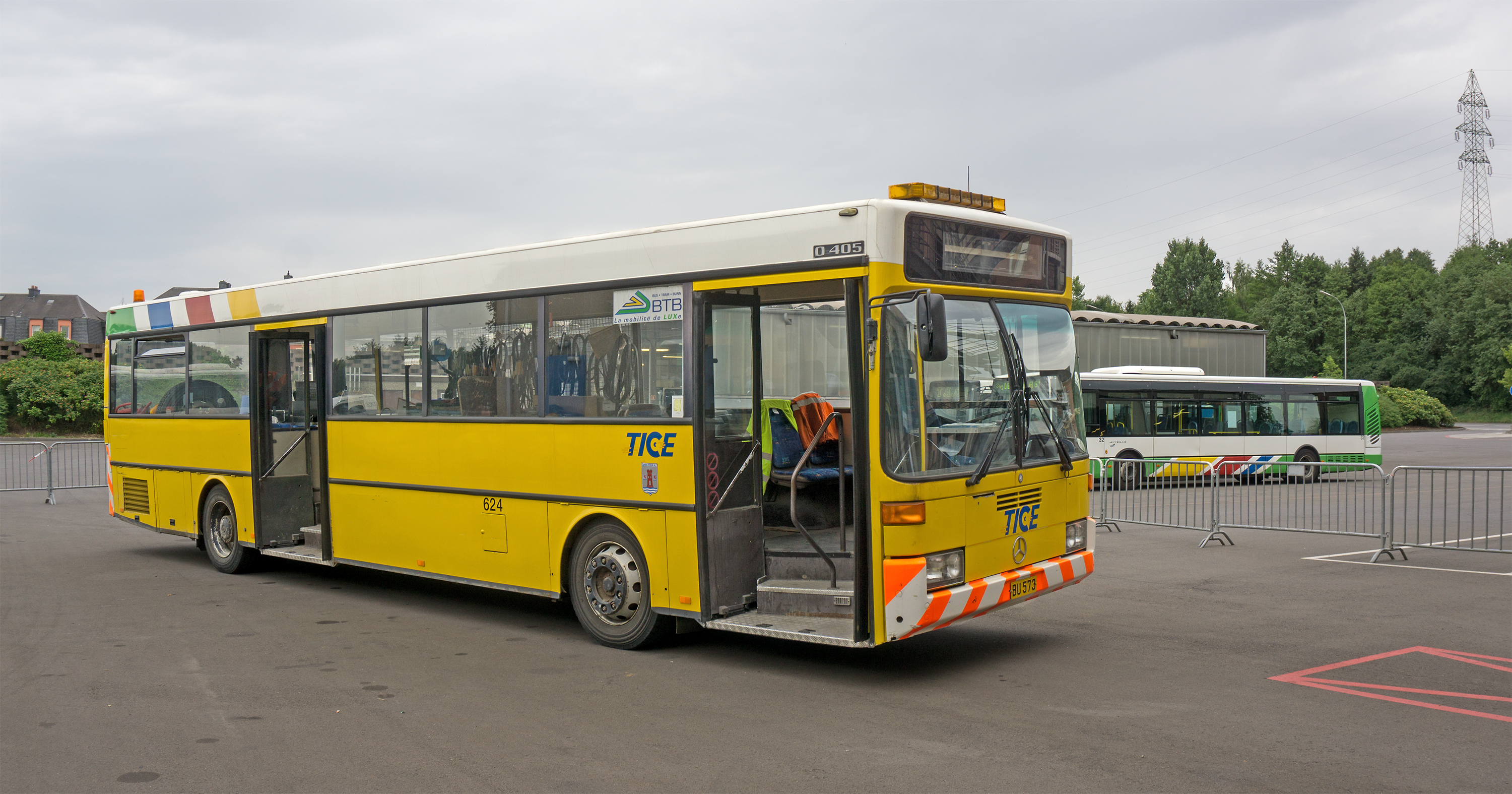 Bus with built-in repair shop for the repair of buses on the route